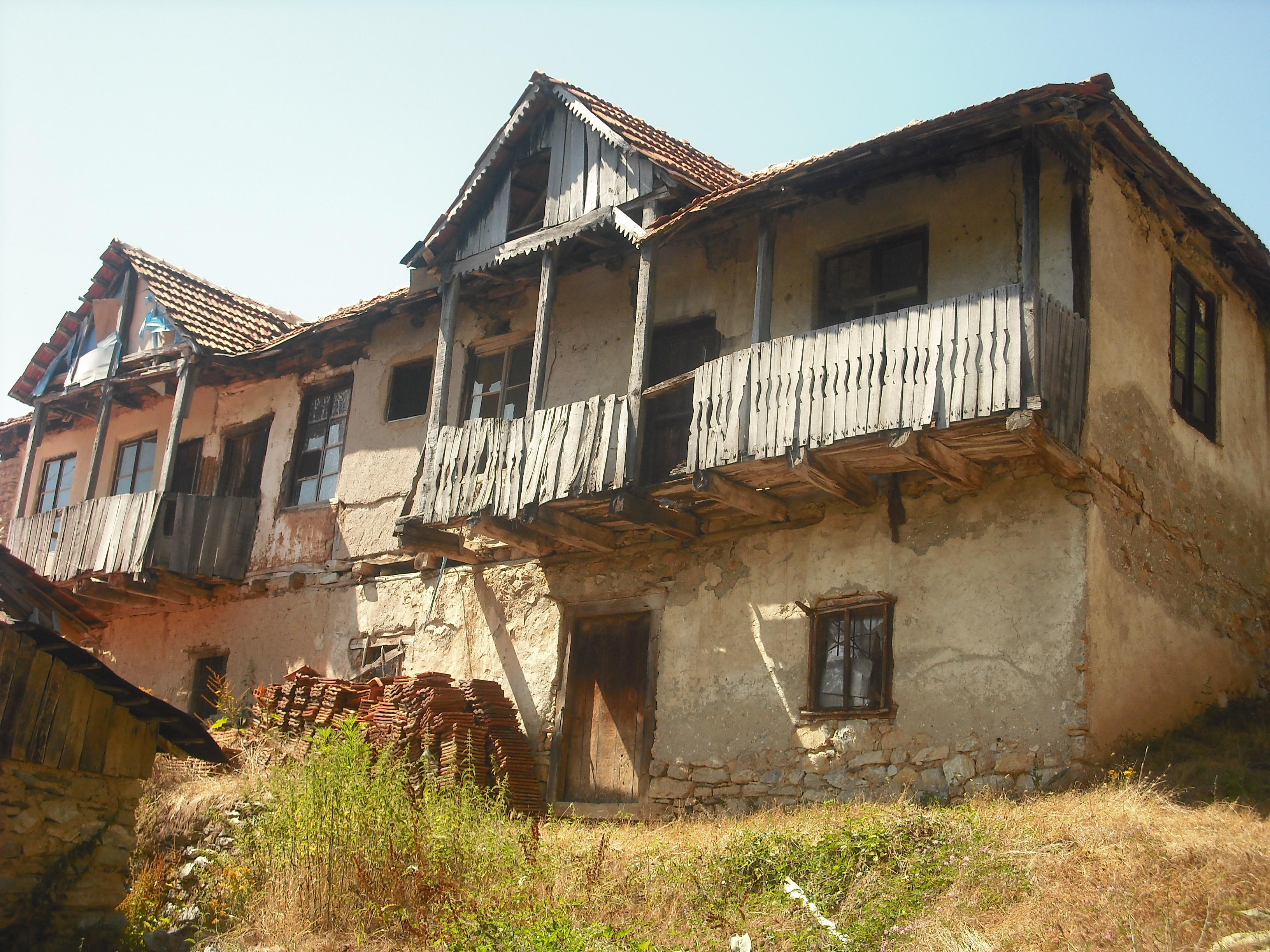 An old house in the village of Mramorec, Republic of Macedonia